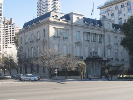 The Bosch Palace, the Official Residence of the U.S. Ambassador to Argentina (it served as the U.S. Embassy/Residence from 1929 to 1969).